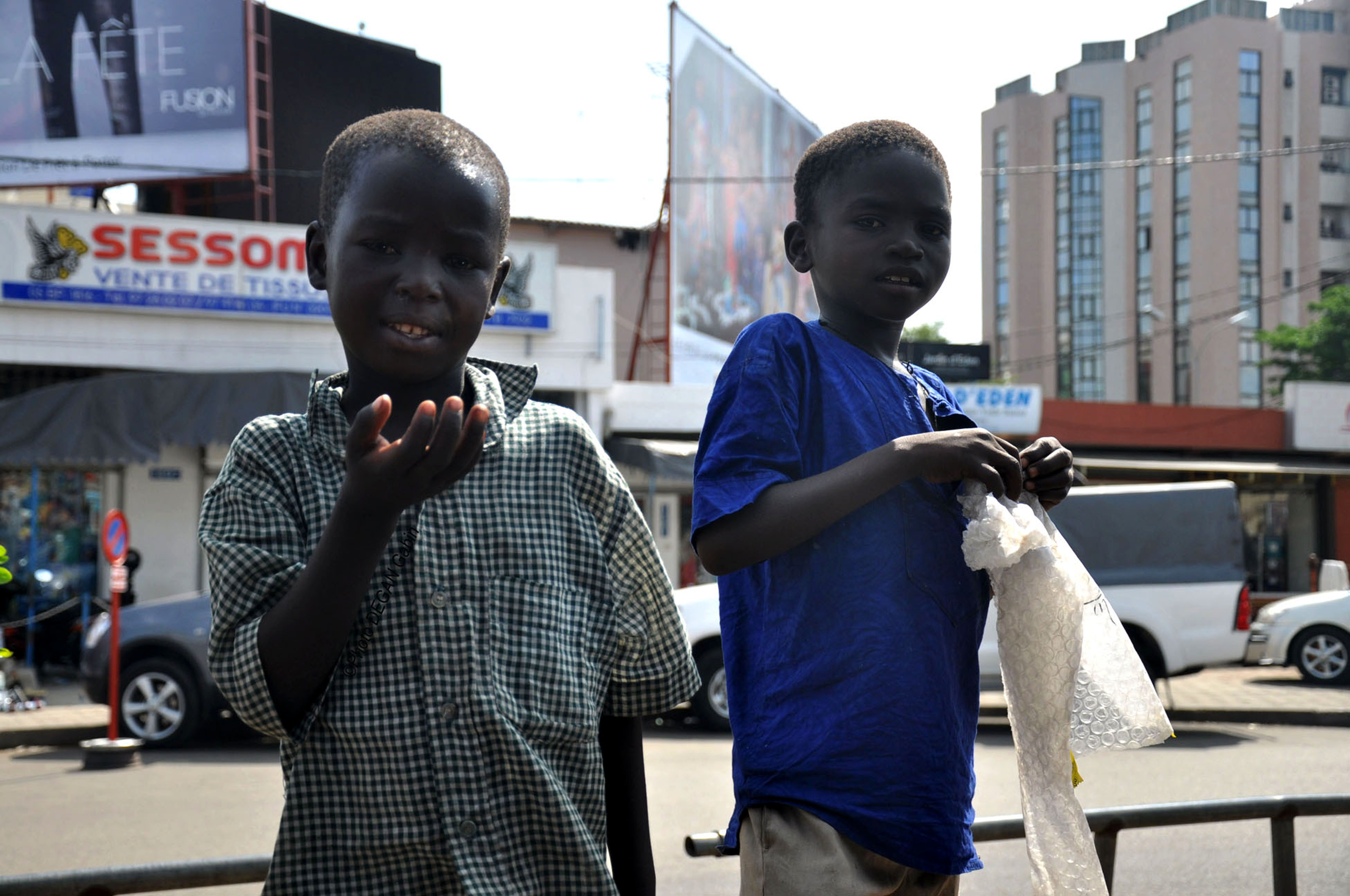 poverty forces his beautiful children to beg for want of abandonment of parents This is an image with the theme "Africa on the Move or Transport" from: Benin